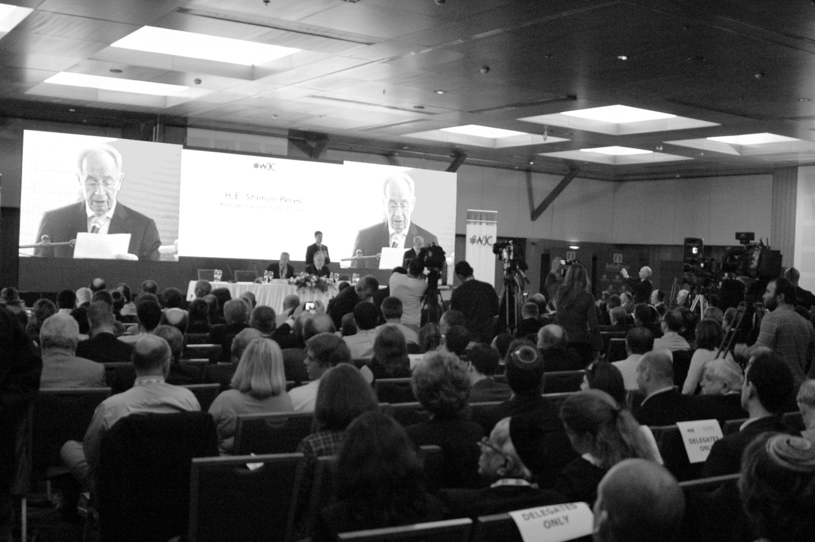 Israeli President Shimon Peres addressing the 400 delegates of the 13th Plenary Assembly of World Jewish Congress in Jerusalem in January 2009